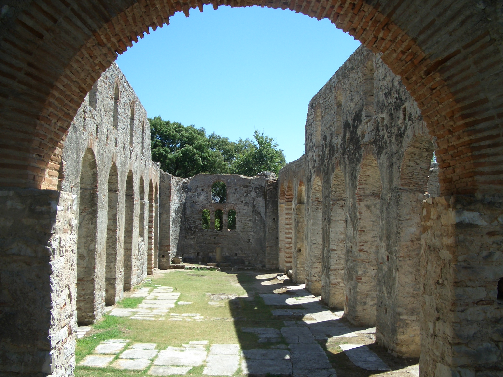 Basilika of Butrint, erected in the 6th century, different renovations and changes till 12th century, always used as church.